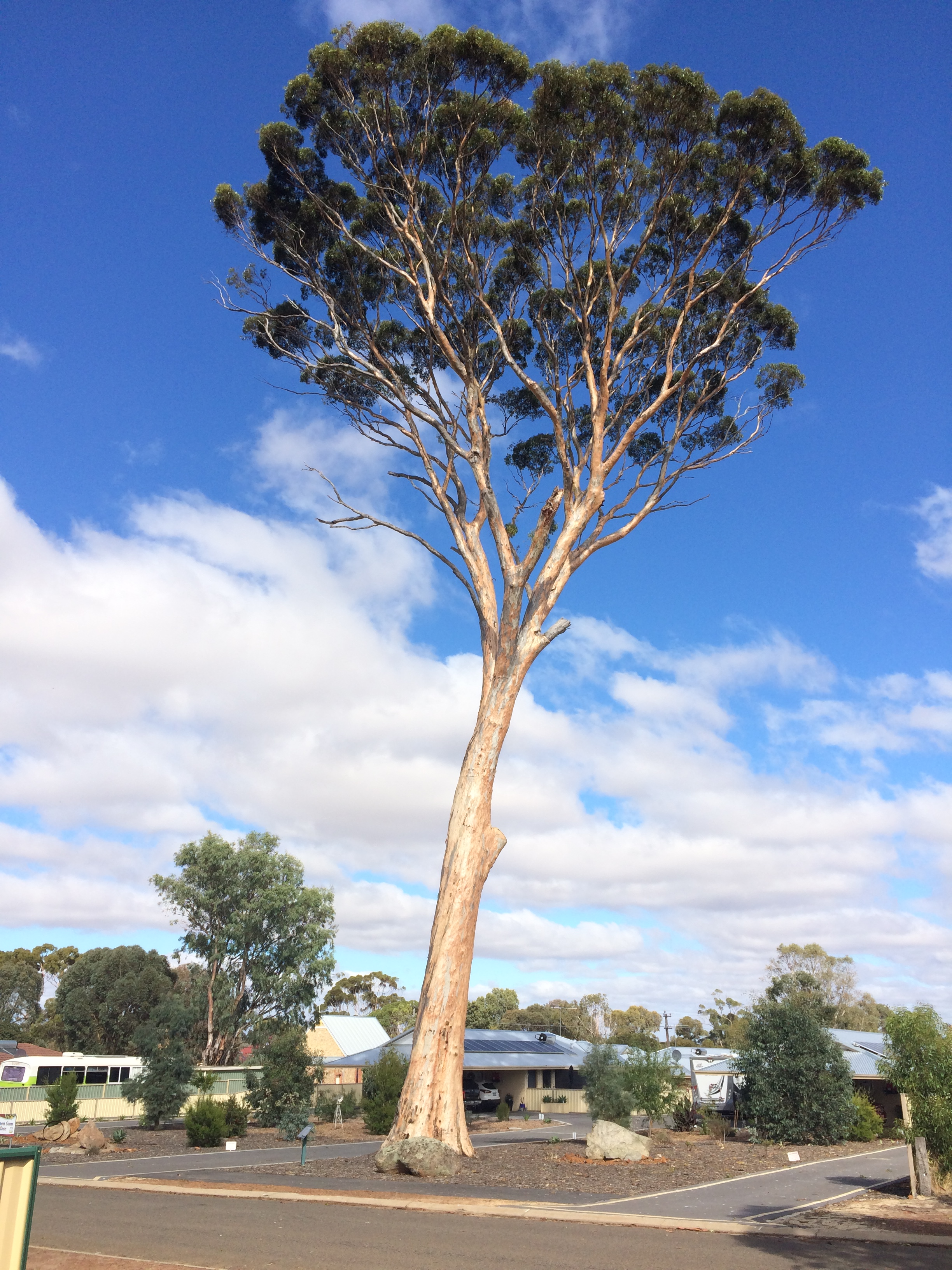 Salmon gum at Woodanilling 2018